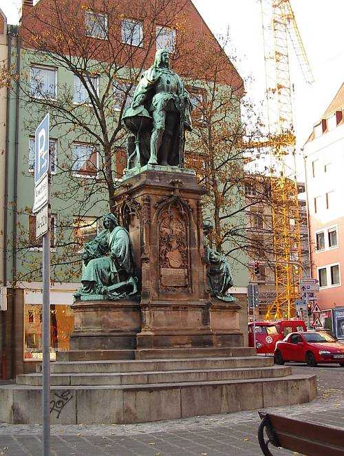 Monument in honor of Martin Behaim at the Theresienplatz in Nuremberg, Germany. Statues in bronze. View from SE